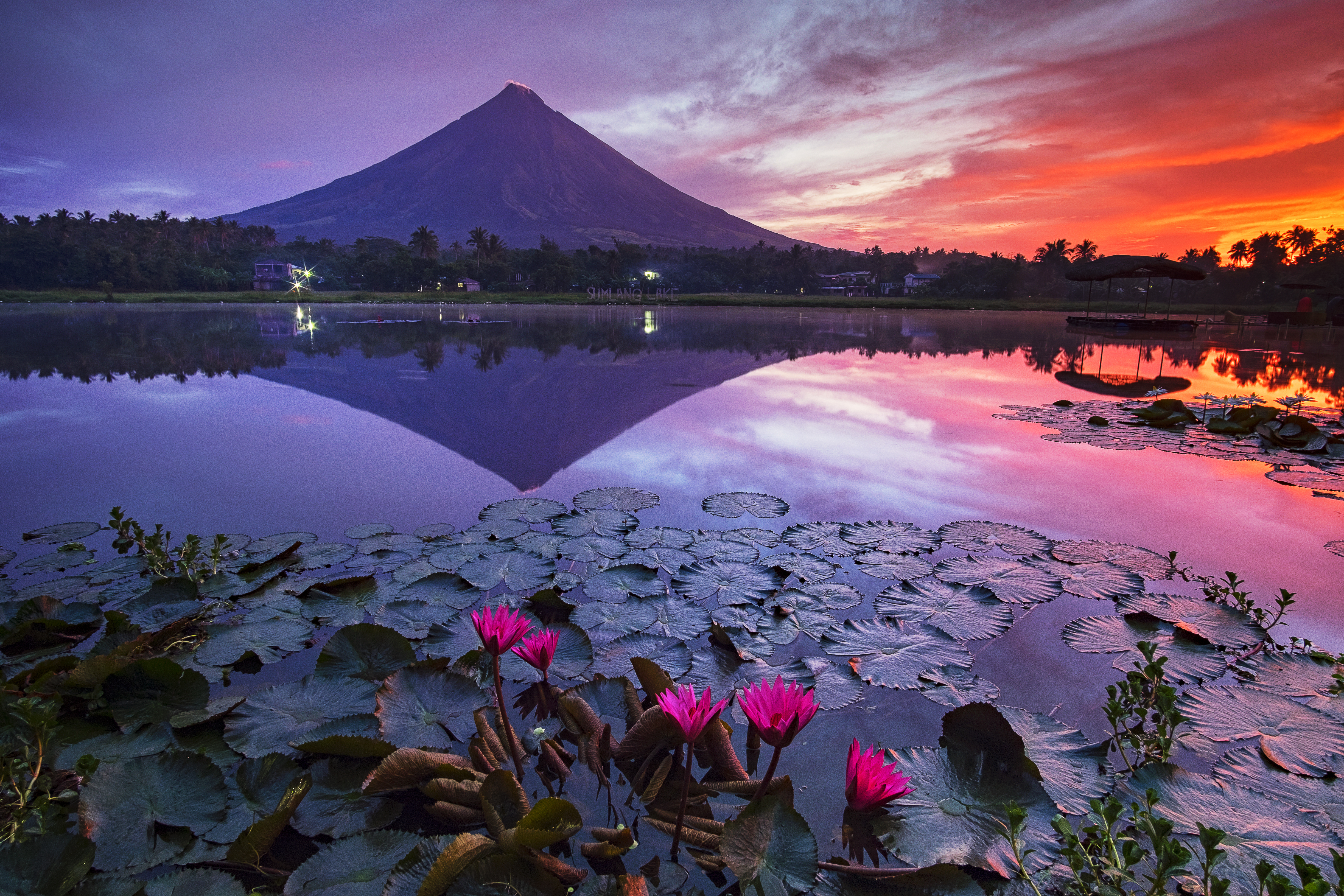 Traveled for about 11 hours from the Philippine's capital, Manila, to Albay Region just to witness this world renowned Mayon Volcano during sunrise. The perfect cone shape makes this volcano famous from both local and international tourists. Mayon Volcano was being nominated as UNESCO World Heritage site in 2006. Mayon was also reclassified as a Natural Park and then renamed as Mayon Volcano Natural Park by the Philippine Government in 2000.